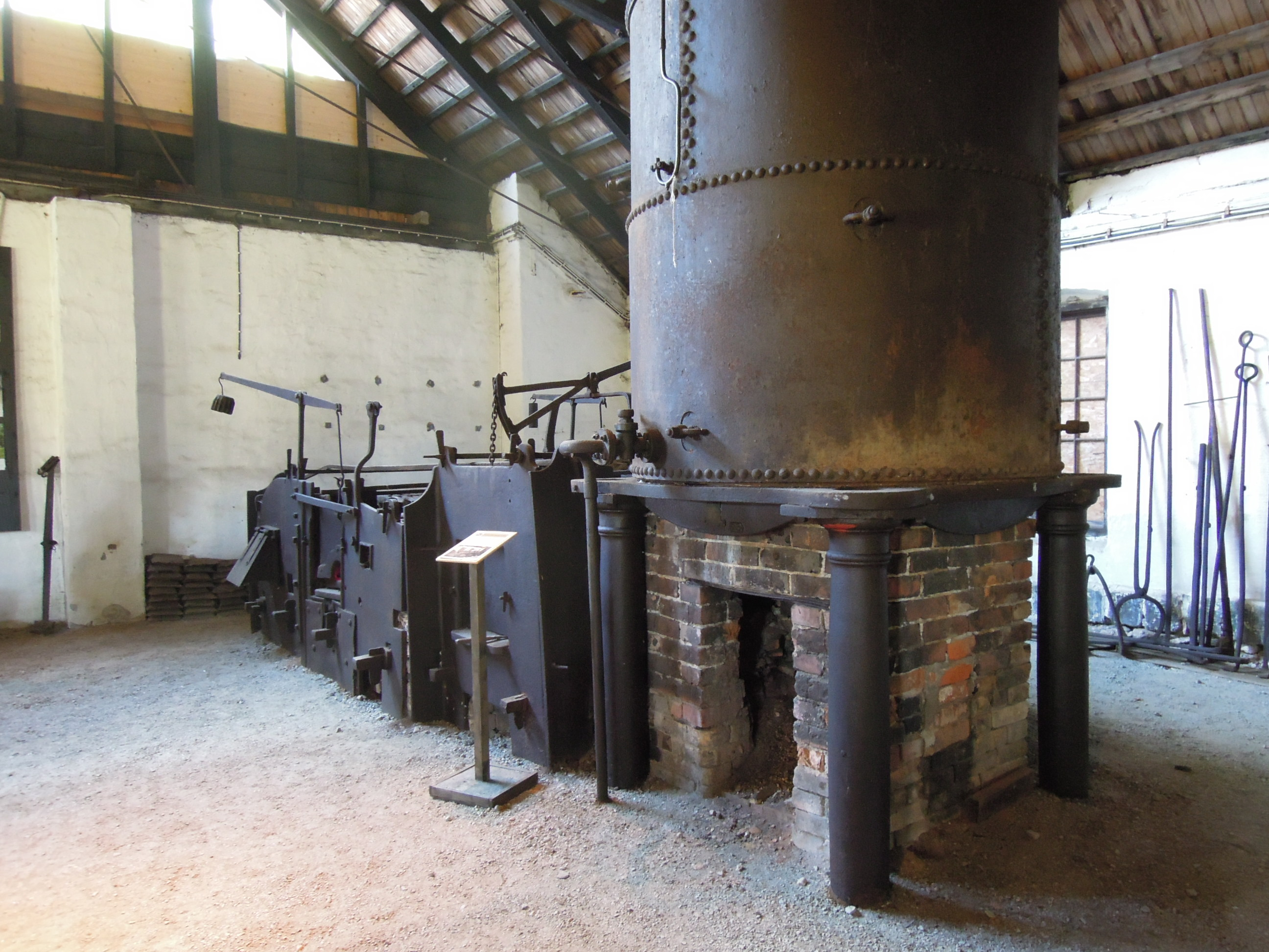 Puddling furnace fired with wood. Attached is a boiler. Ironwork museum in Surahammar, Sweden